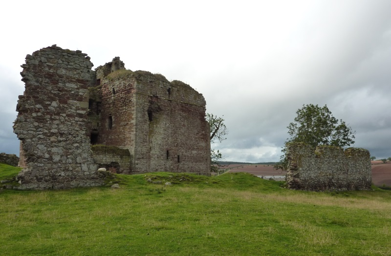 Cessford Castle, Scottish Borders, Scotland.